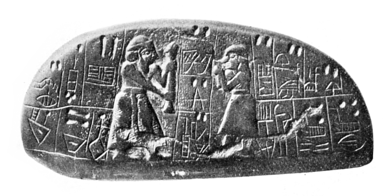 Blau Monuments (front)